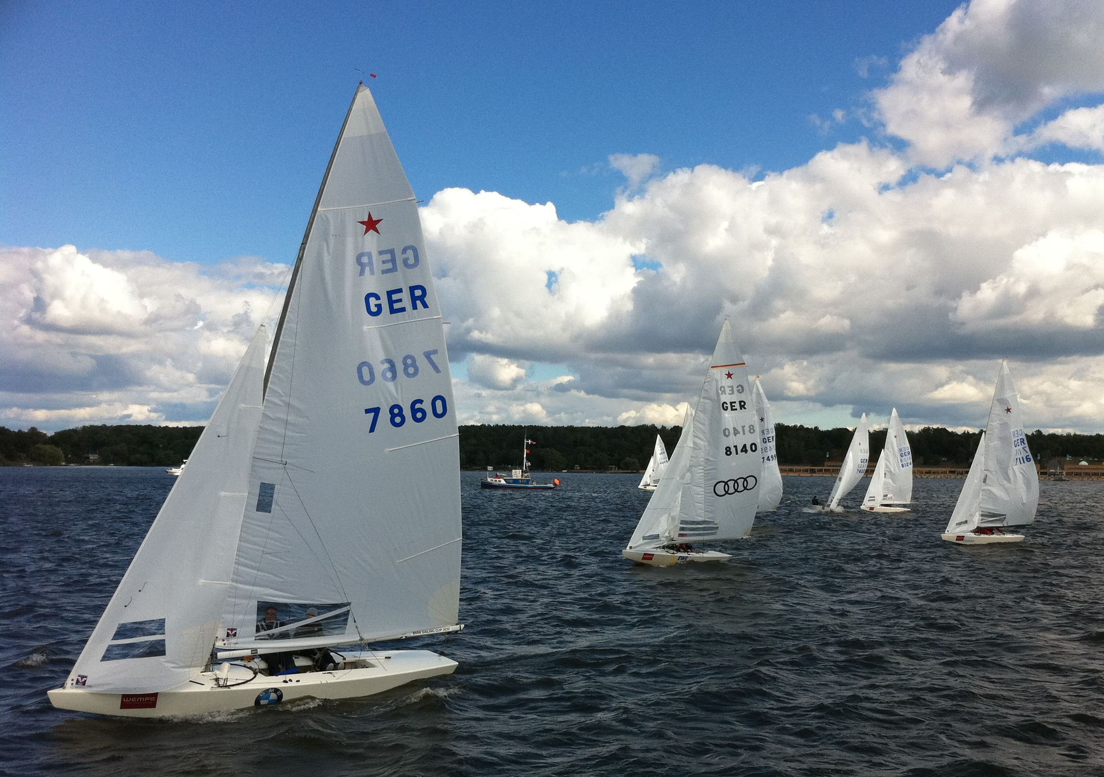 Starboat-regatta: First race of German Open/international german championship of starboats 2010 at Wannsee/Berlin. In front (GER 7860) Markus Wieser (VSaW) and Ulli Seeberger (YCR), currently next (GER 8140) Alexander Schlonski (NRV) and Mathias Bohn (WSC)